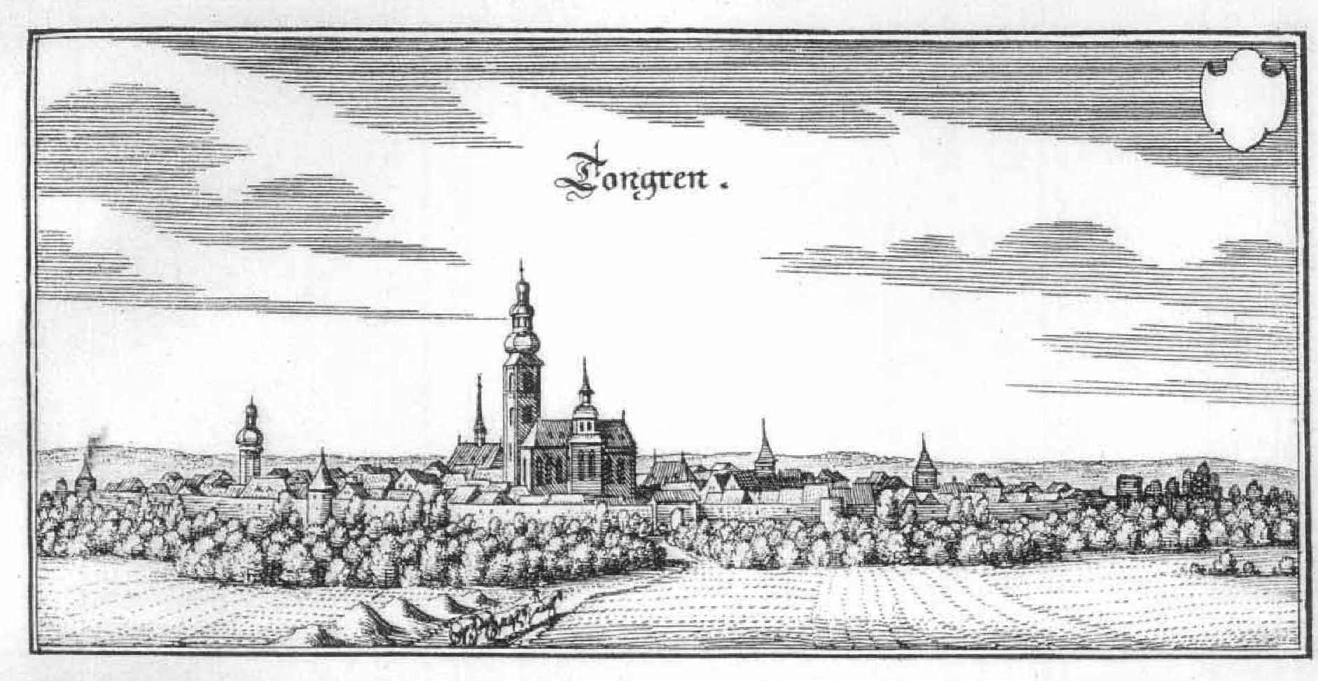 This is a scan of the historical document